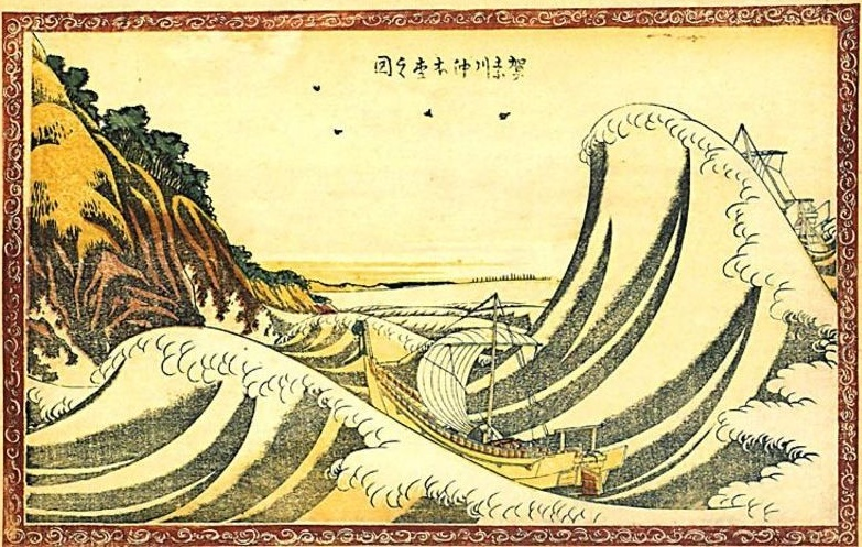 Kanagawa-oki Honmoku no zu : View of Honmoku off Kanagawa